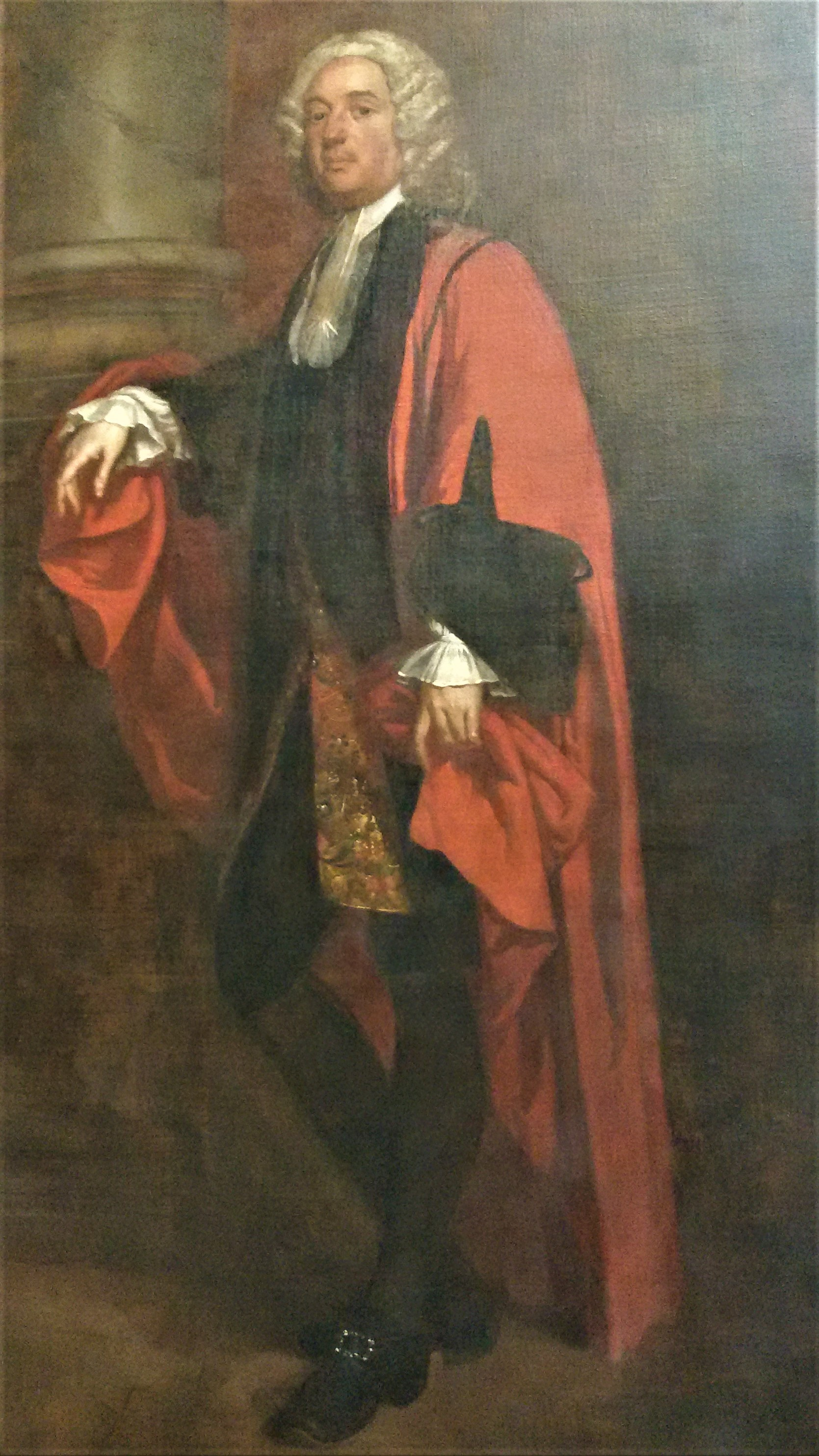 Portrait of Eaton Stannard (1685-1755)